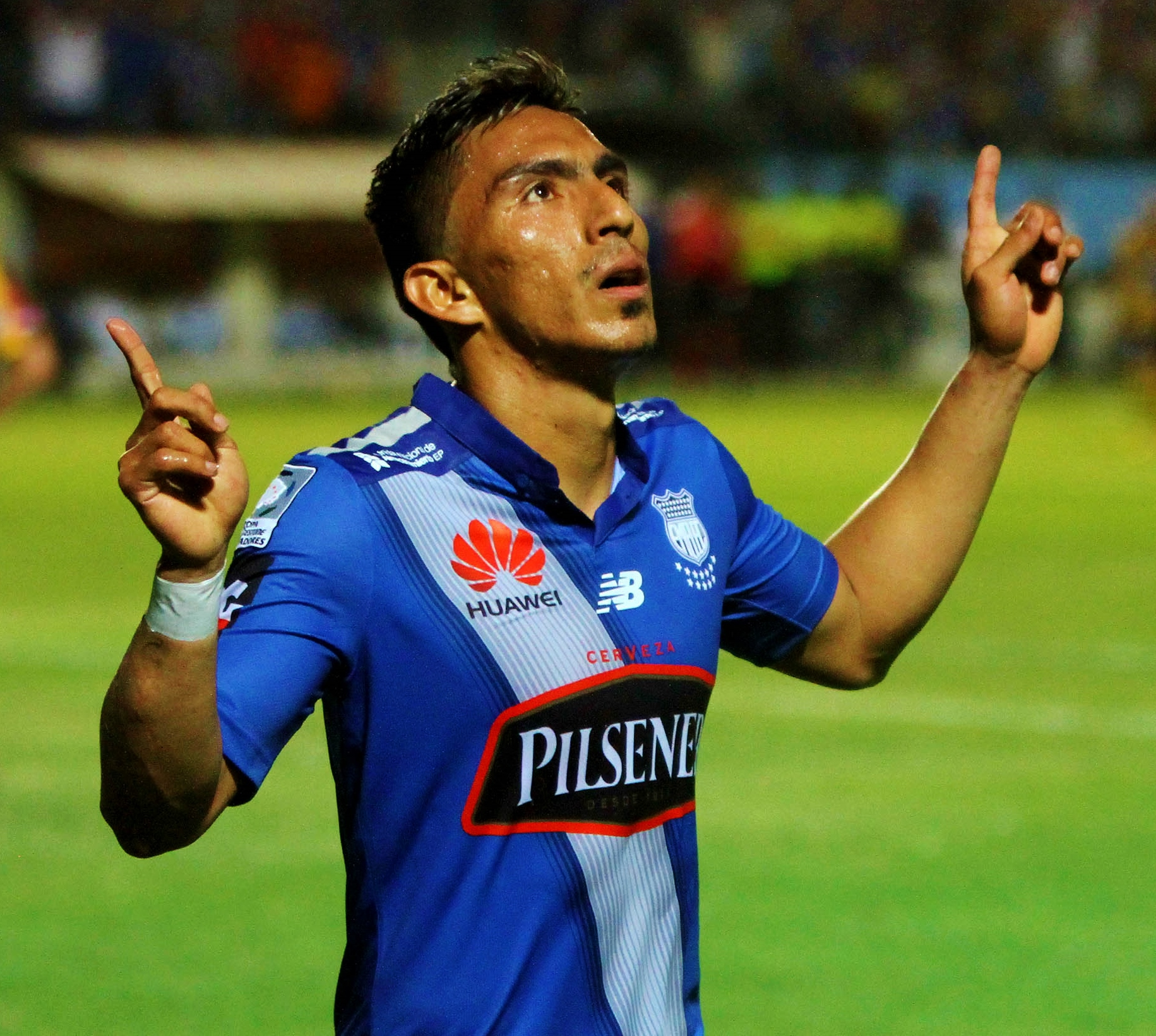 Manta, martes 24 de febraro del 2015 (ANDES).-Emelec golea 3x0 all The Strongest de Bolívia en el estadio Jocay de la ciudad de Manta, Manabí, partido jugado por Copa Libertadores, en la gráfica Angel Mena festeja el tercer gol del equipo eléctricoFoto:César Muñoz/ANDES